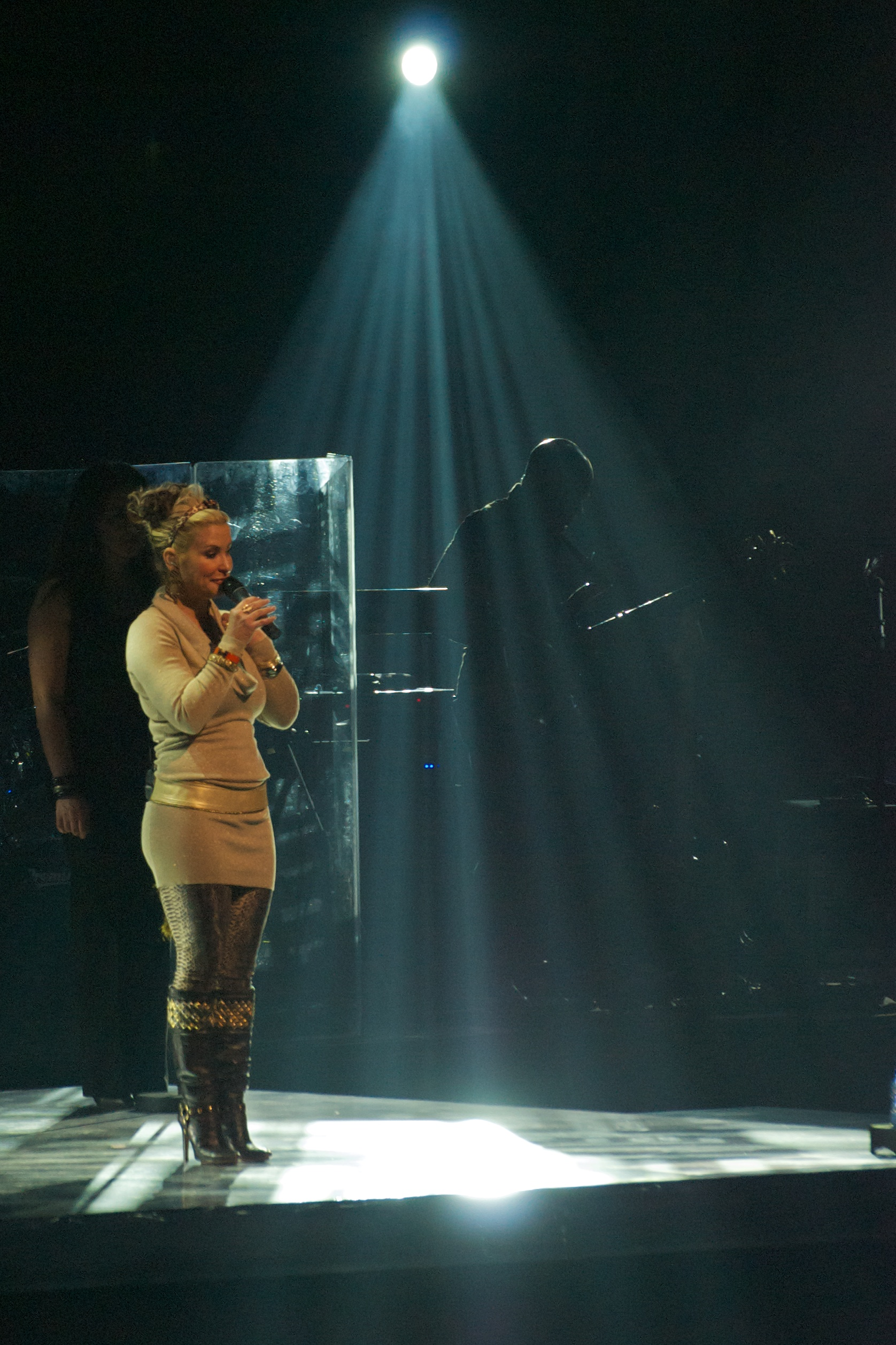 Anastacia live at Hallenstadion.